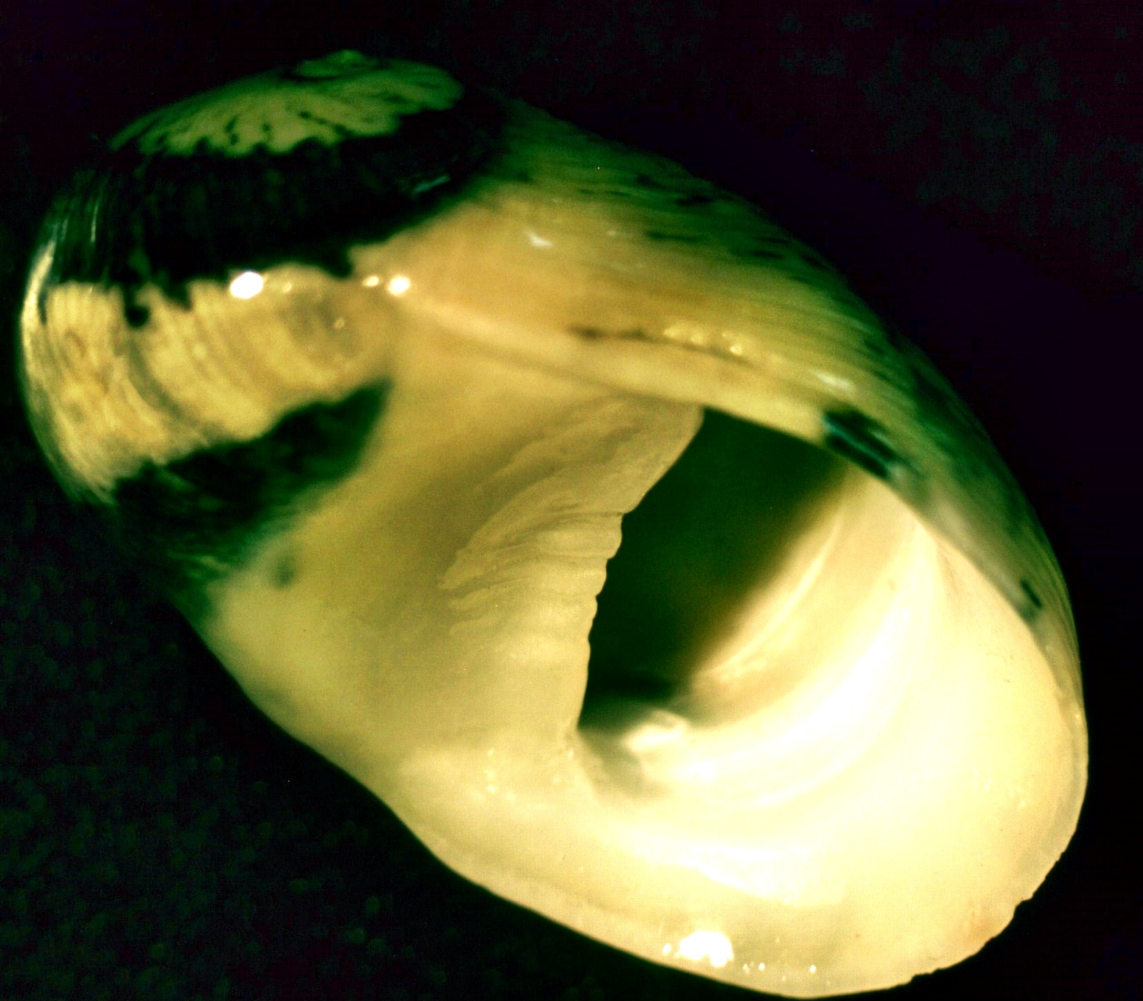 Nerita polita rumphii Récluz, 1841 : often referred to as Nerita litterata, a snail from the family Neritidae; Philippines